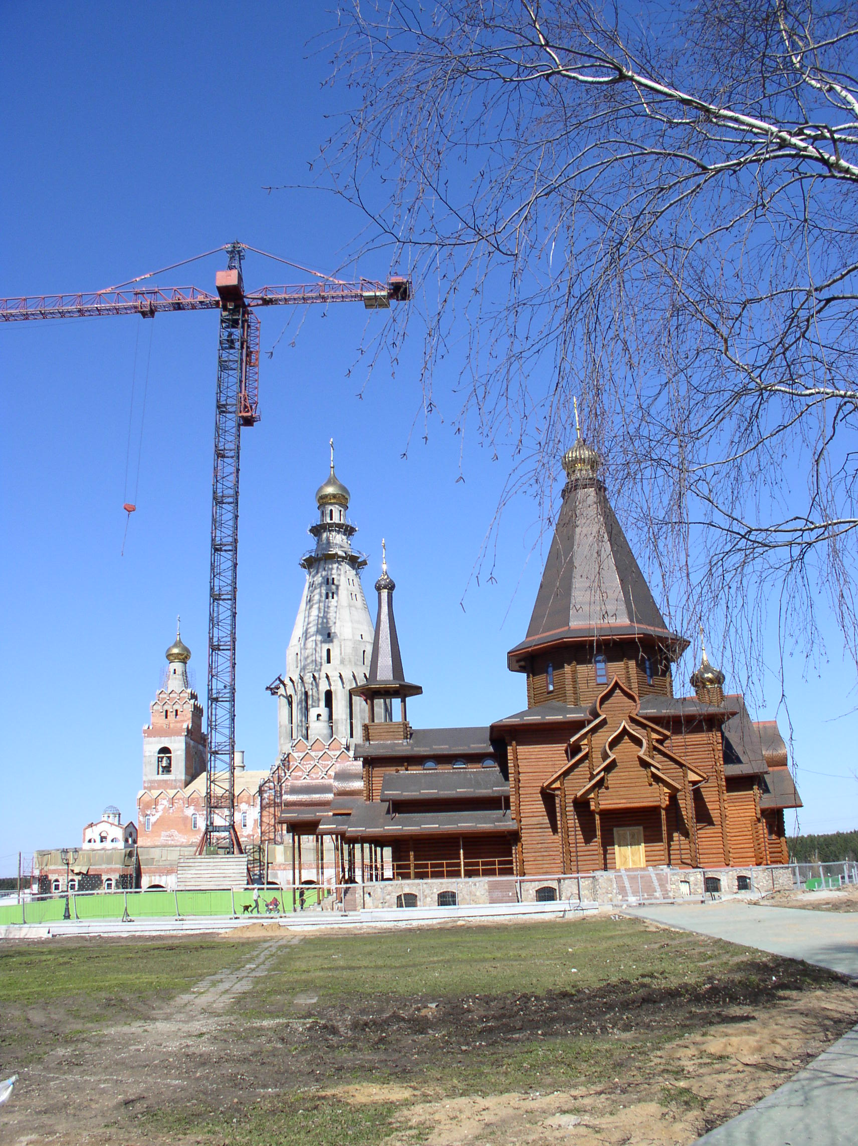 Church of All Saints. Minsk, Belarus.